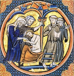 Franciscan friars witness a Cathar Consulamentum. Detail from Bible moralisée, end of the book of Job.